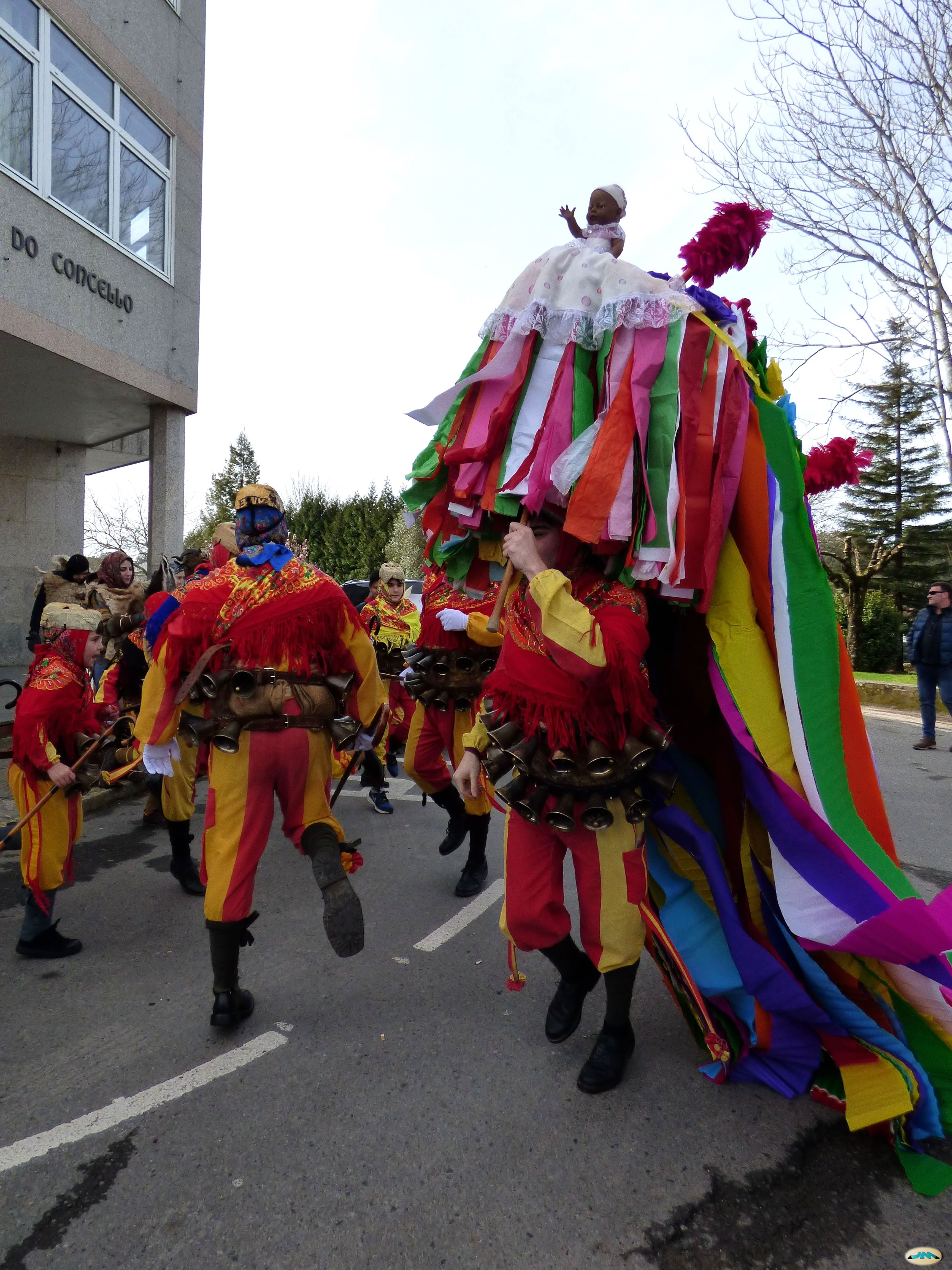 Entroido Chantada 2018.